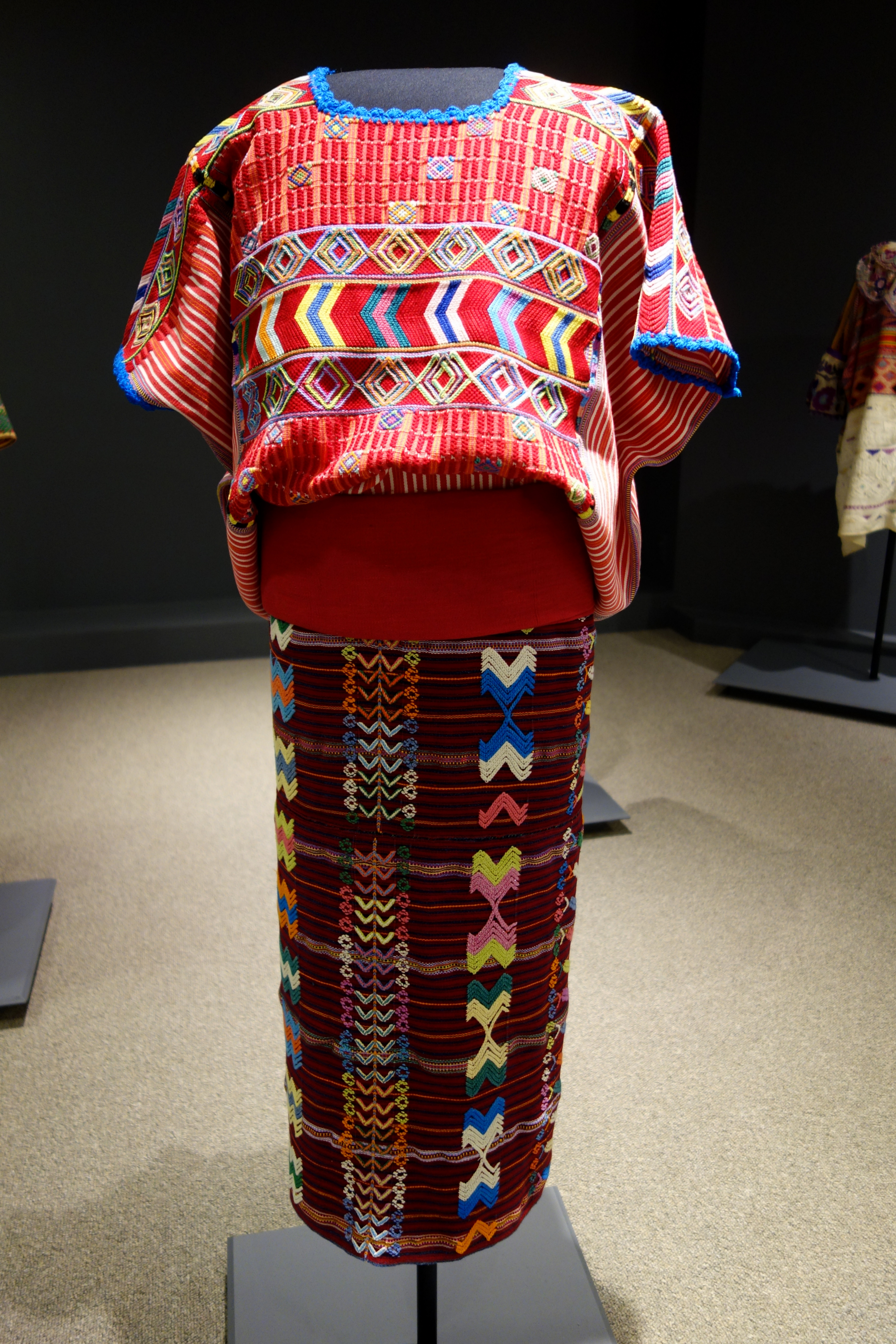 Exhibit in the Textile Museum of Canada, 55 Centre Avenue, Toronto, Ontario, Canada.